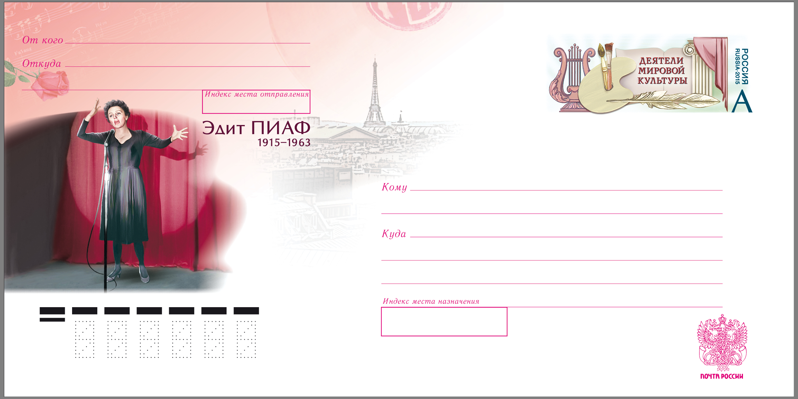 Figures of the World Culture (an ongoing series of postal stationery envelopes). The 100th birth anniversary of Édith Piaf (1915—1963), a French singer and actress. The illustrated postal stationery envelope with commemorative stamp, Russia, 12 August 2015. PTC Marka Catalogue No 274. Envelope paper VBM (ВБМ) with watermarks “ПОЧТА РОССИИ”. Offset printing. Size of the envelope: 110×220 mm. Print run: 1,000,000. The non-denominated stamp of the ongoing series with symbols of arts (“Letter A”, for domestic letters, weight 20 g or less). The illustration: Édith Piaf appears on stage.